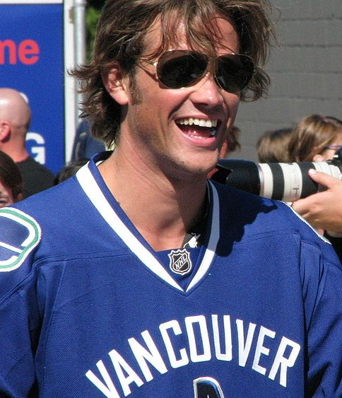 Jared Padalecki at the 2008 Red Bull Soapbox Race. It's just another version beacause in the original can't be loaded an other version.